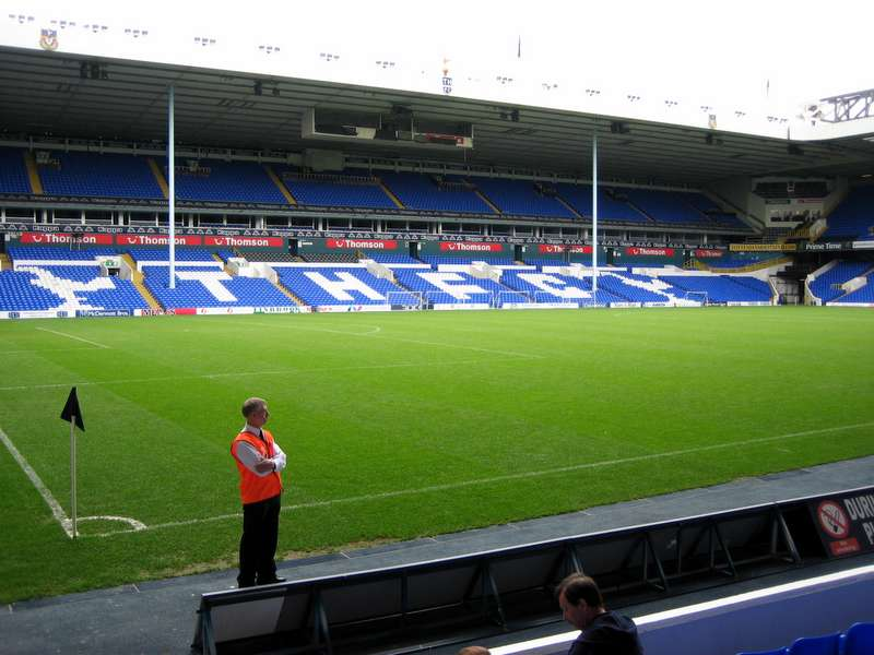 White hart Lane, home of Tottenham Hotspur FC